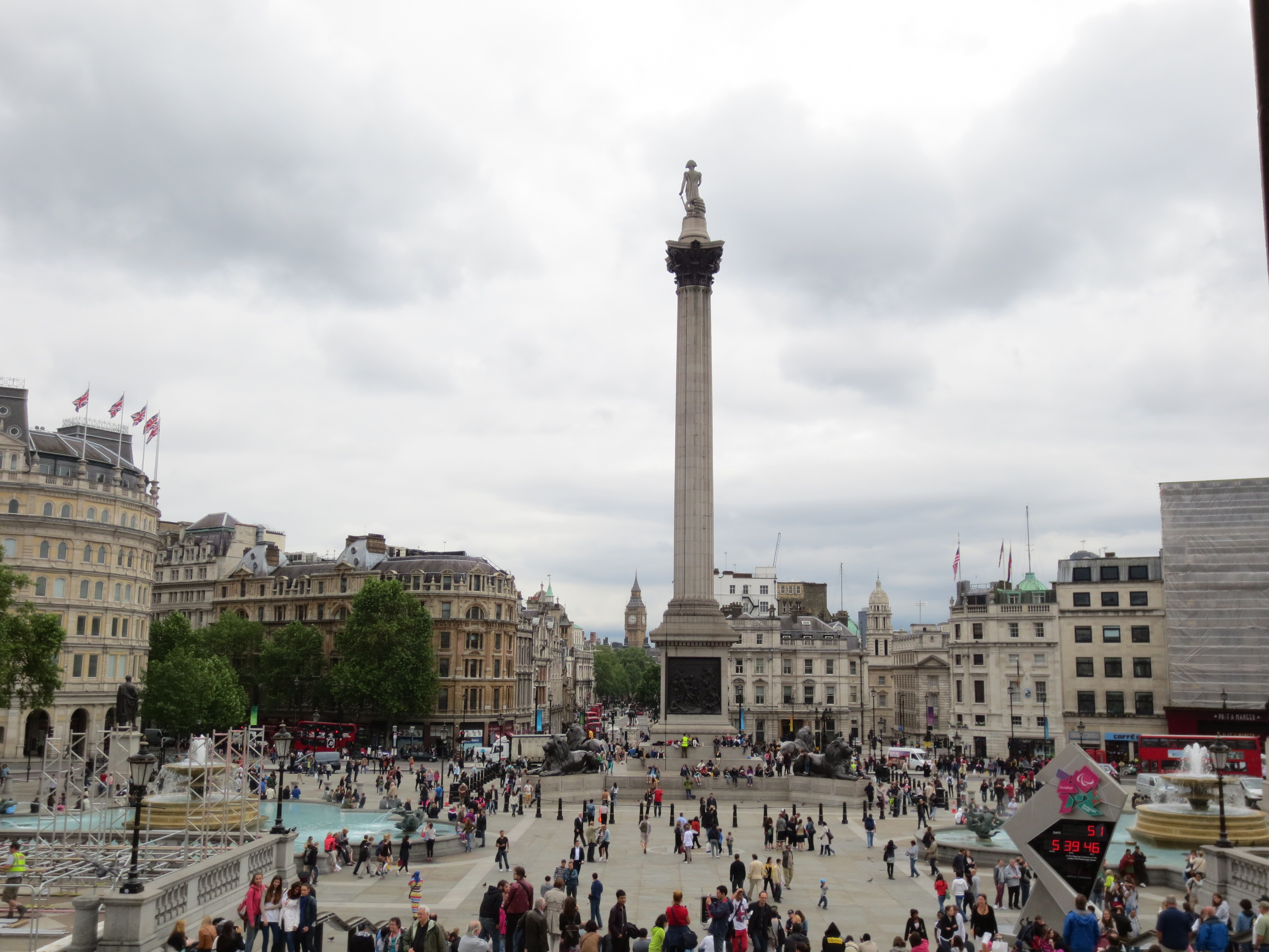 Trafalgar Square view with the Olympics clock visible on the right